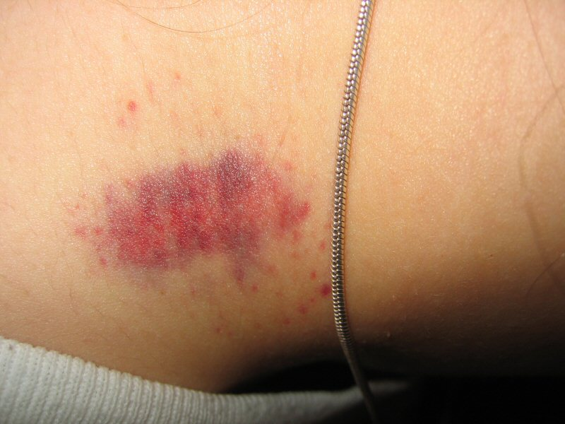 A hickey on the neck. Uploaded from: Image:Hickyey.jpg